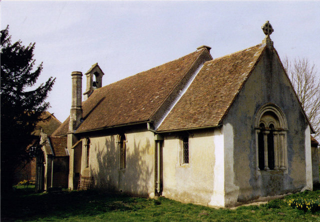 St Margaret's parish church, Catmore, Berkshire, seen from the southeast